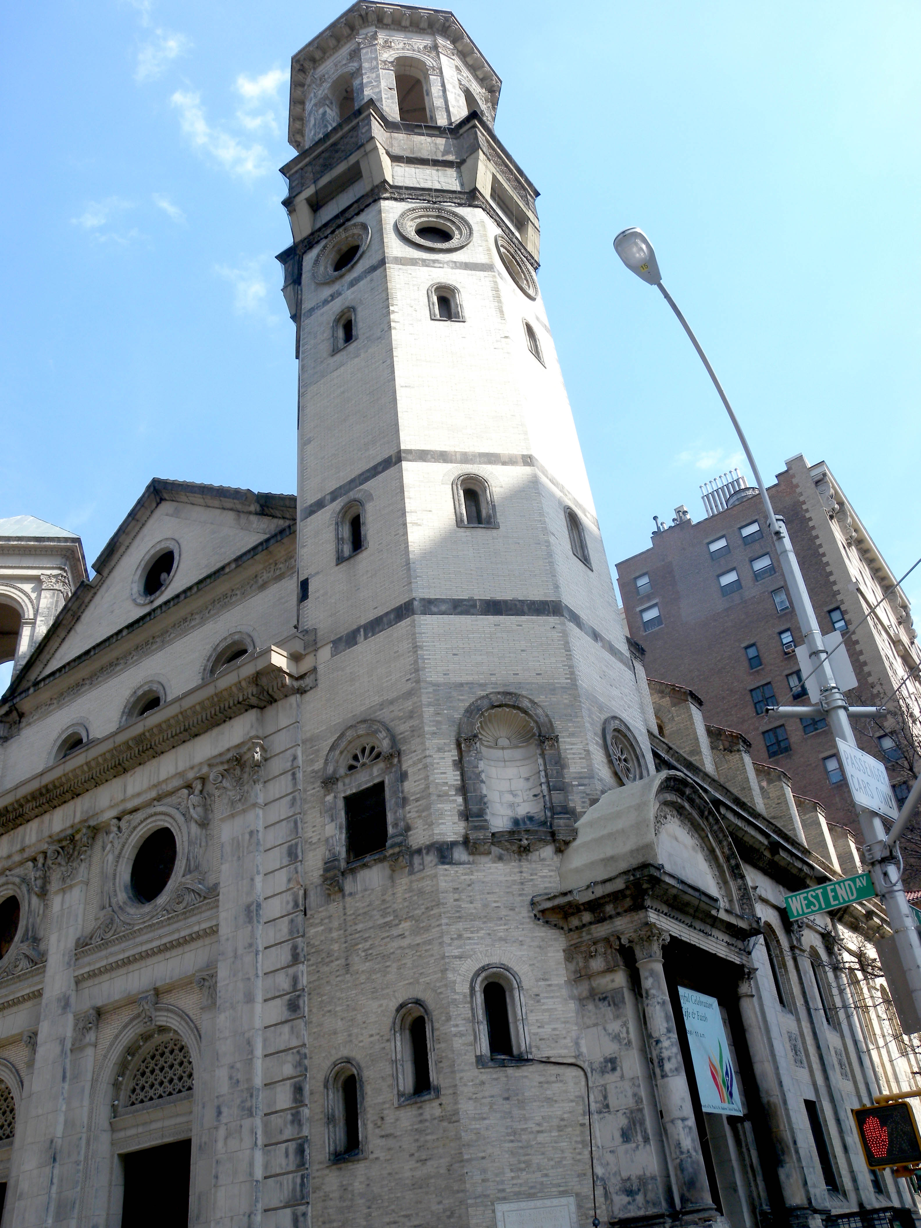 Looking east across West End Avenue at the Church of St. Paul and St. Andrew on a sunny afternoon.